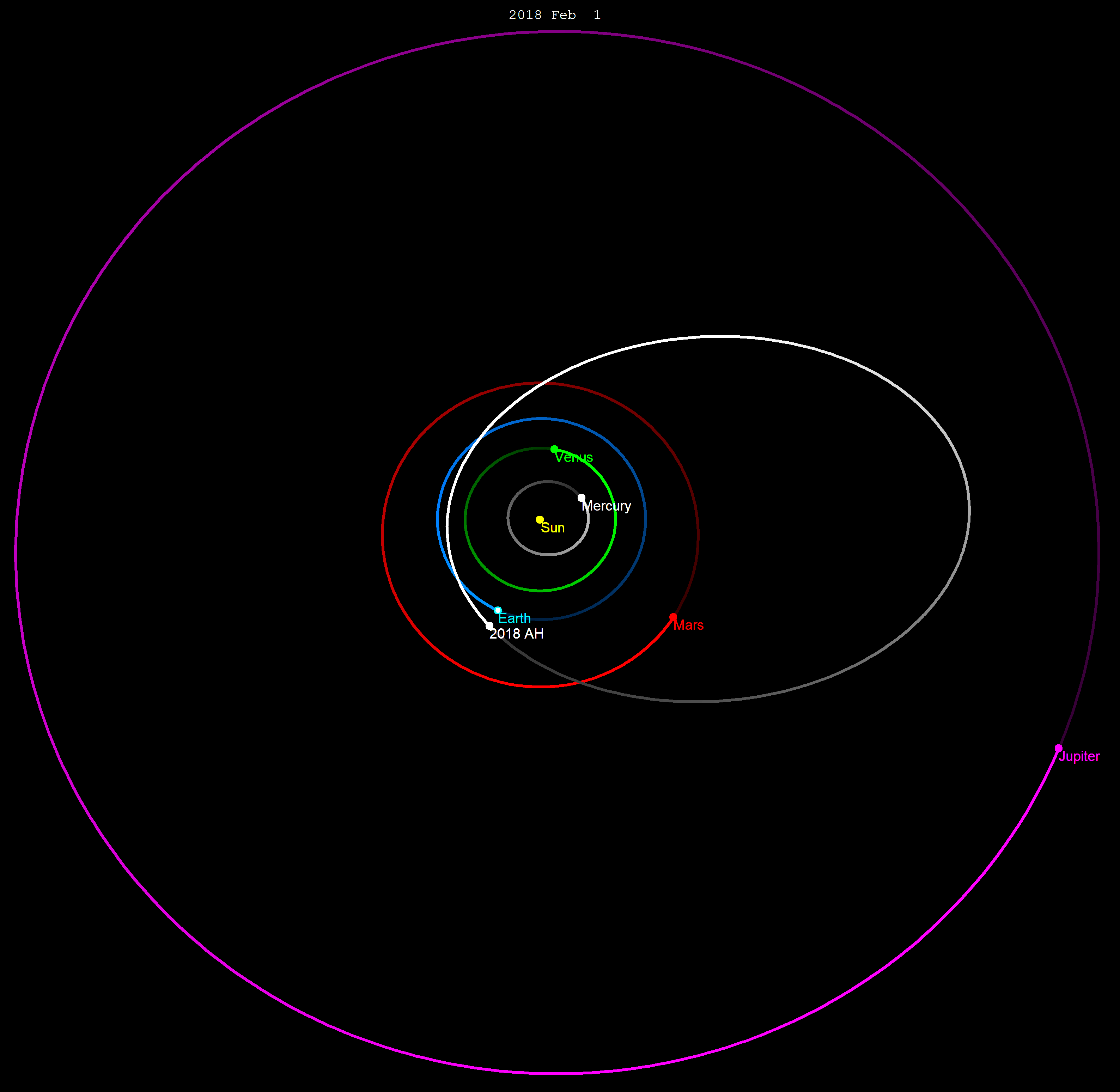 2018 AH orbit